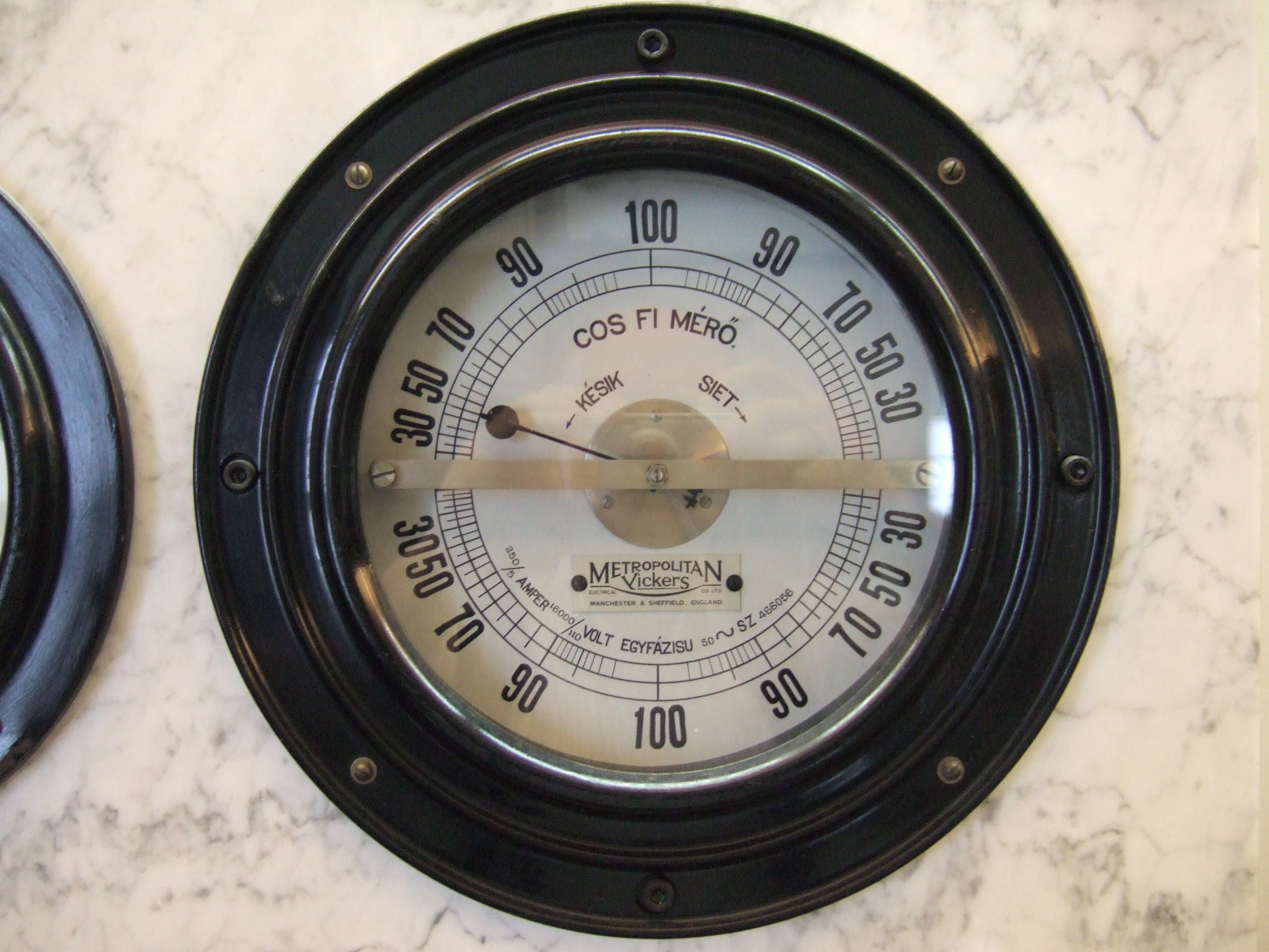 The Electrotechnical Museum of Hungary (Magyar Elektrotechnikai Múzeum) is situated in a transformer station from 1934. In the mid 1970s the electrotechnical museum was established in the building. The building was originaly designed by Ágost Gerstenberg and Károly Arvé in a Bauhaus style. In the exhibition area several photos, models and documents showing the history of development of Hungarian electrotechnics; old transformers, generators, motors, meters, rectifiers, capacitors, fuses and relays are on display. A separate room is devoted to early electrical household appliances.